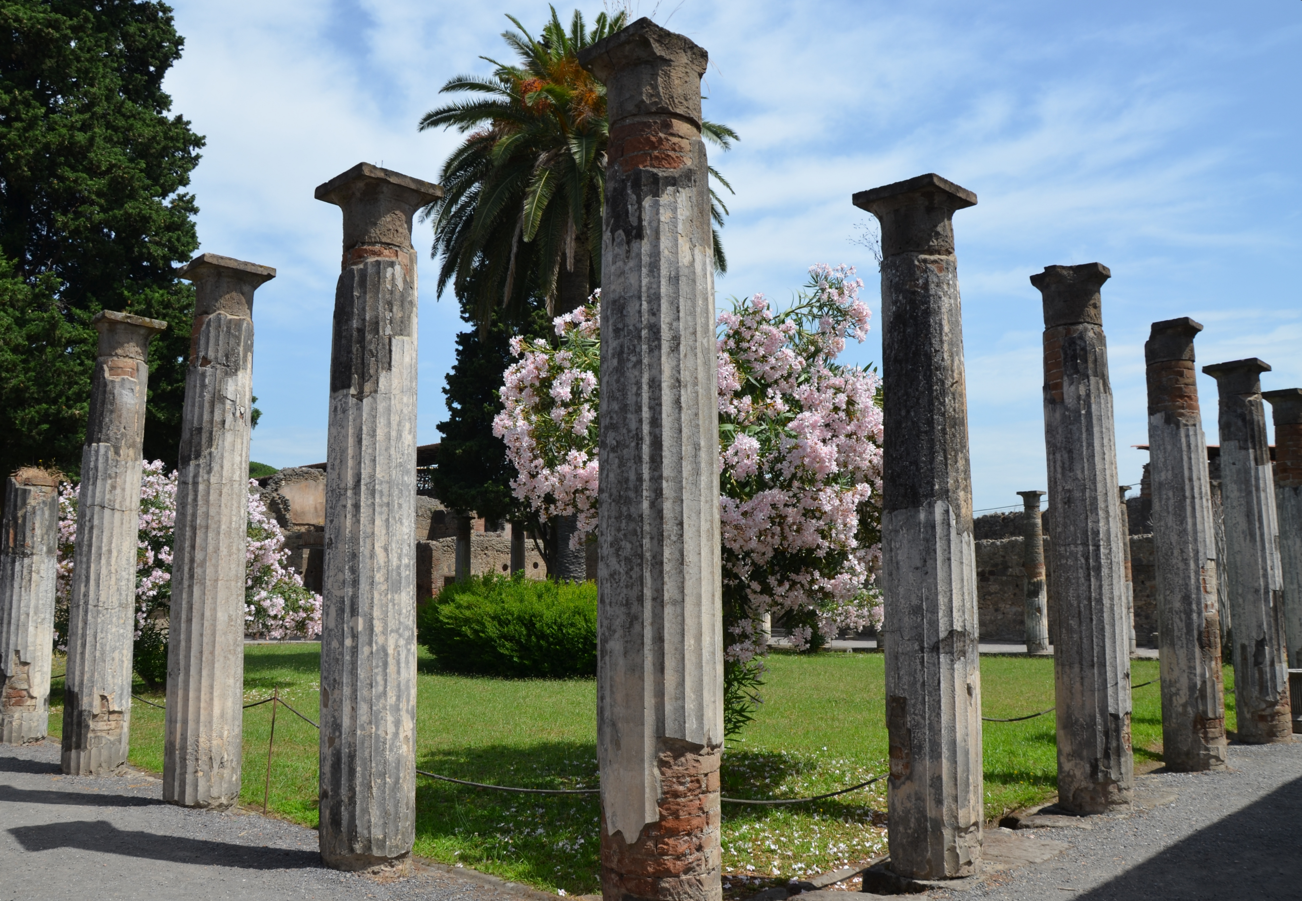 House of the Faun, the second peristyle occupying more than a third of the insula, Pompeii